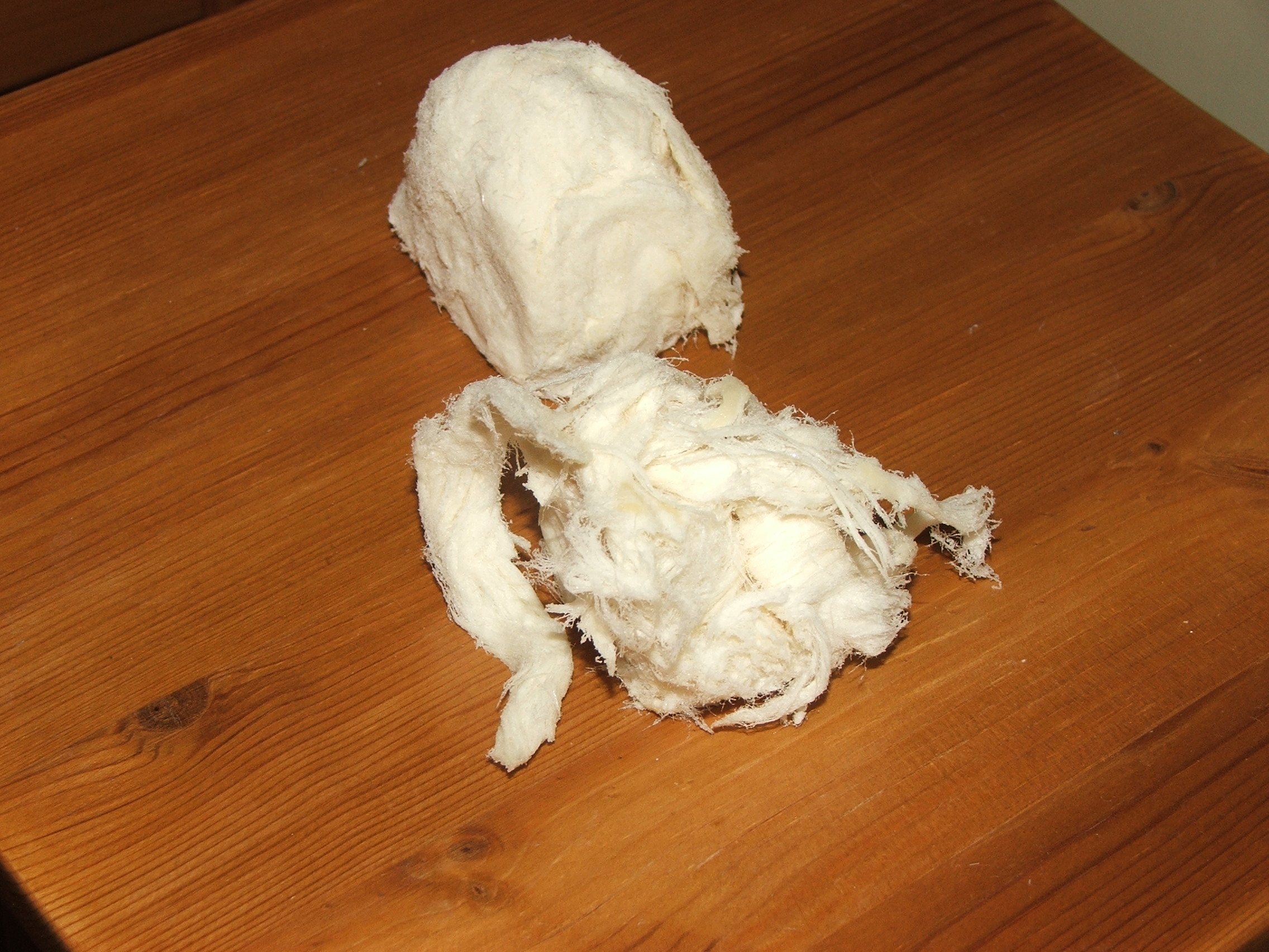 Pişmaniye, turkish dessert